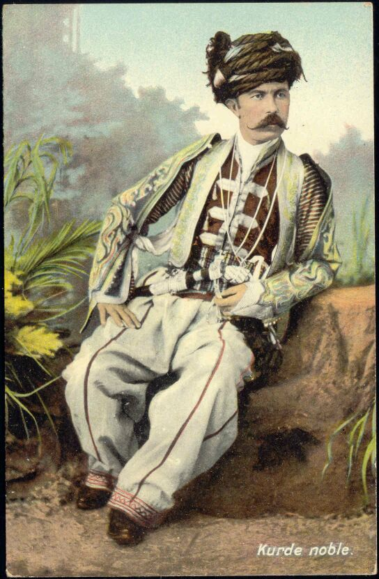 Noble Kurdish Man with traditional costumes and Jambiya dagger, 1880. Kurdî: Zadeganê kurd bi cil û bergên kevneşopî û xencera xwe, 1880.